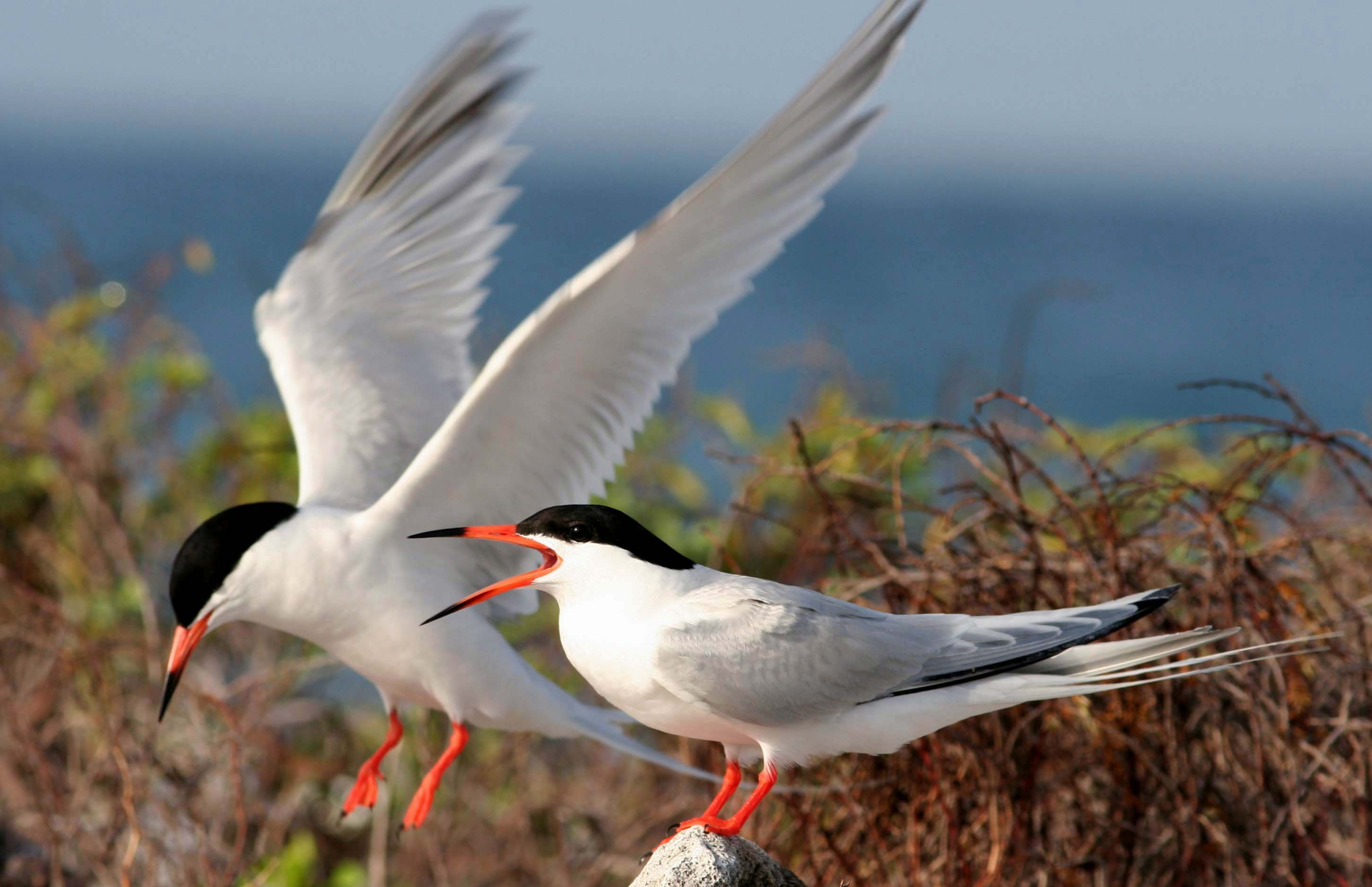 Roseate Tern Common name